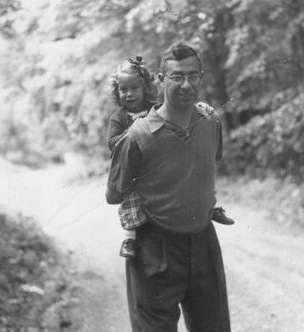 Wollheim family photo used as Donald Wollheim's author photo. Depicts Donald Wollheim and his daughter Betsy in 1954. PD-self